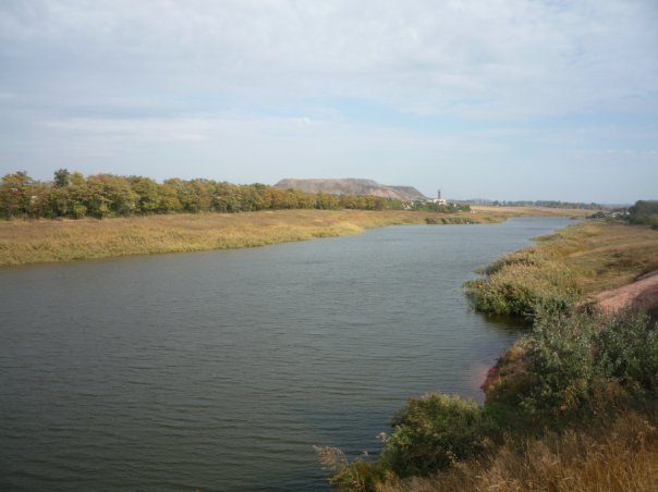 Pond in Donetsk